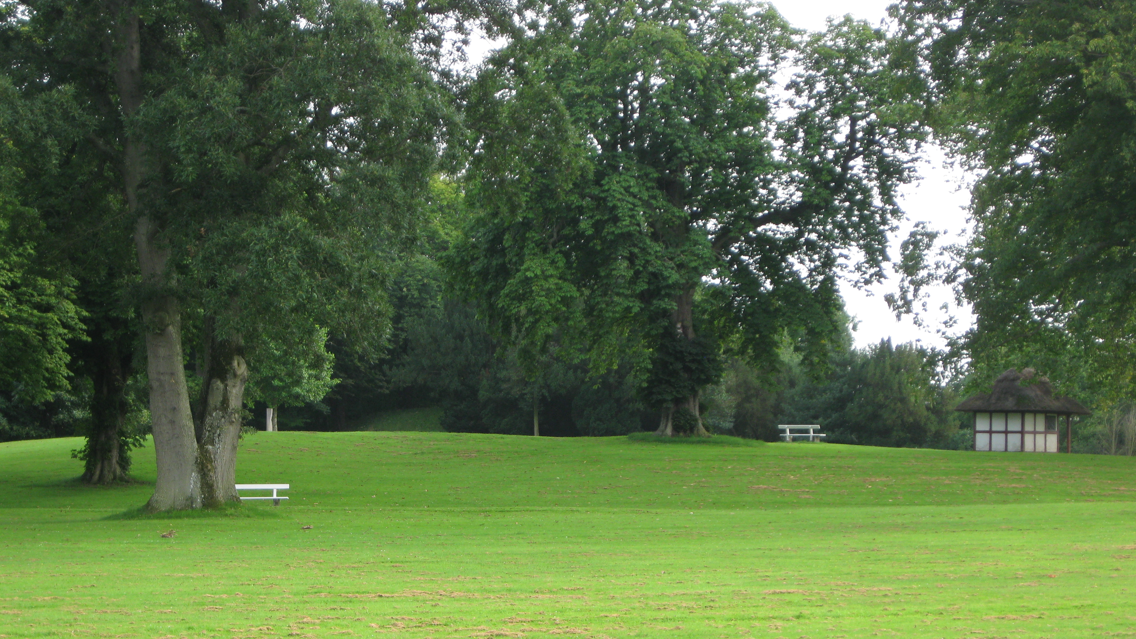 The garden of the estate "Pederstrup" (Reventlow Museum) located on the island Lolland in east Denmark